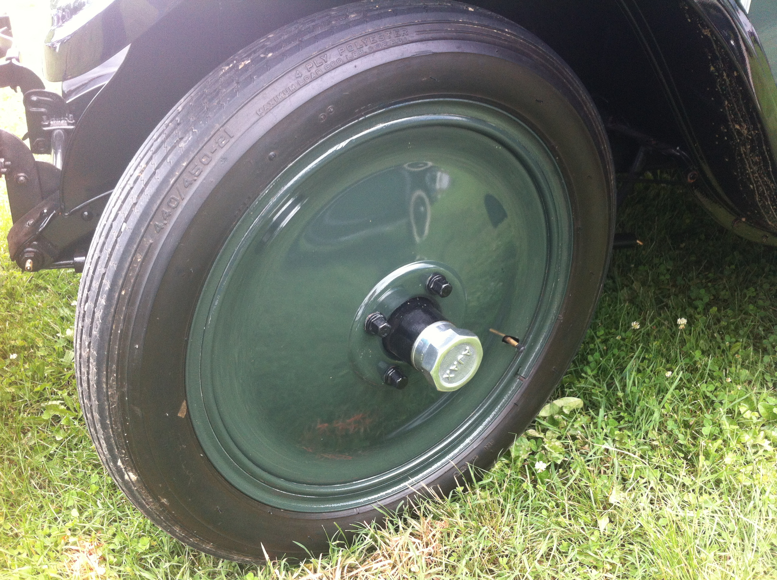 Left front wheel and tire on a 1926 Ajax, a 4-door sedan built by Nash. Picture taken at the 2014 Gettysburg AACA meet held near York Springs, Pennsylvania.